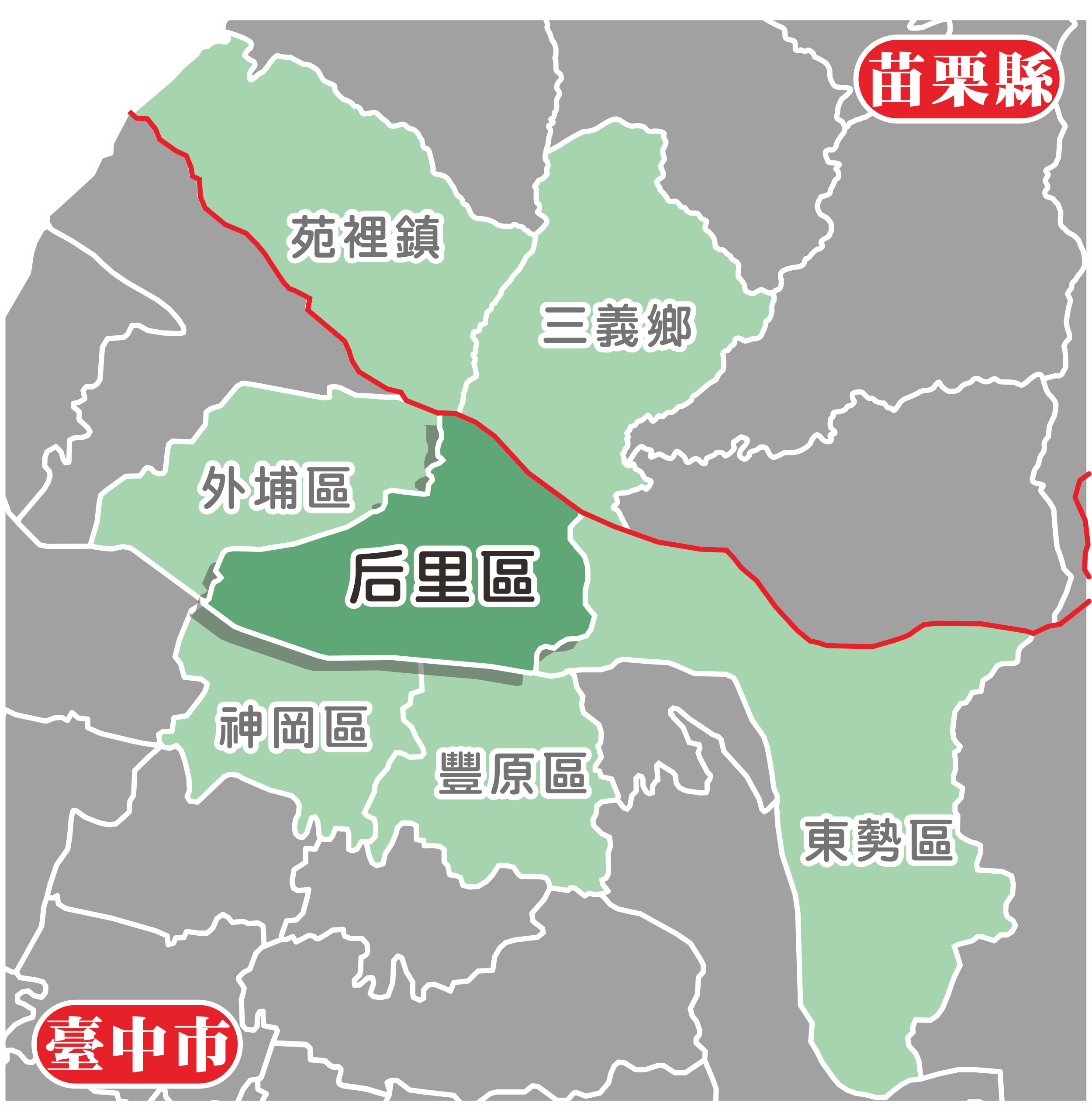 Houli District